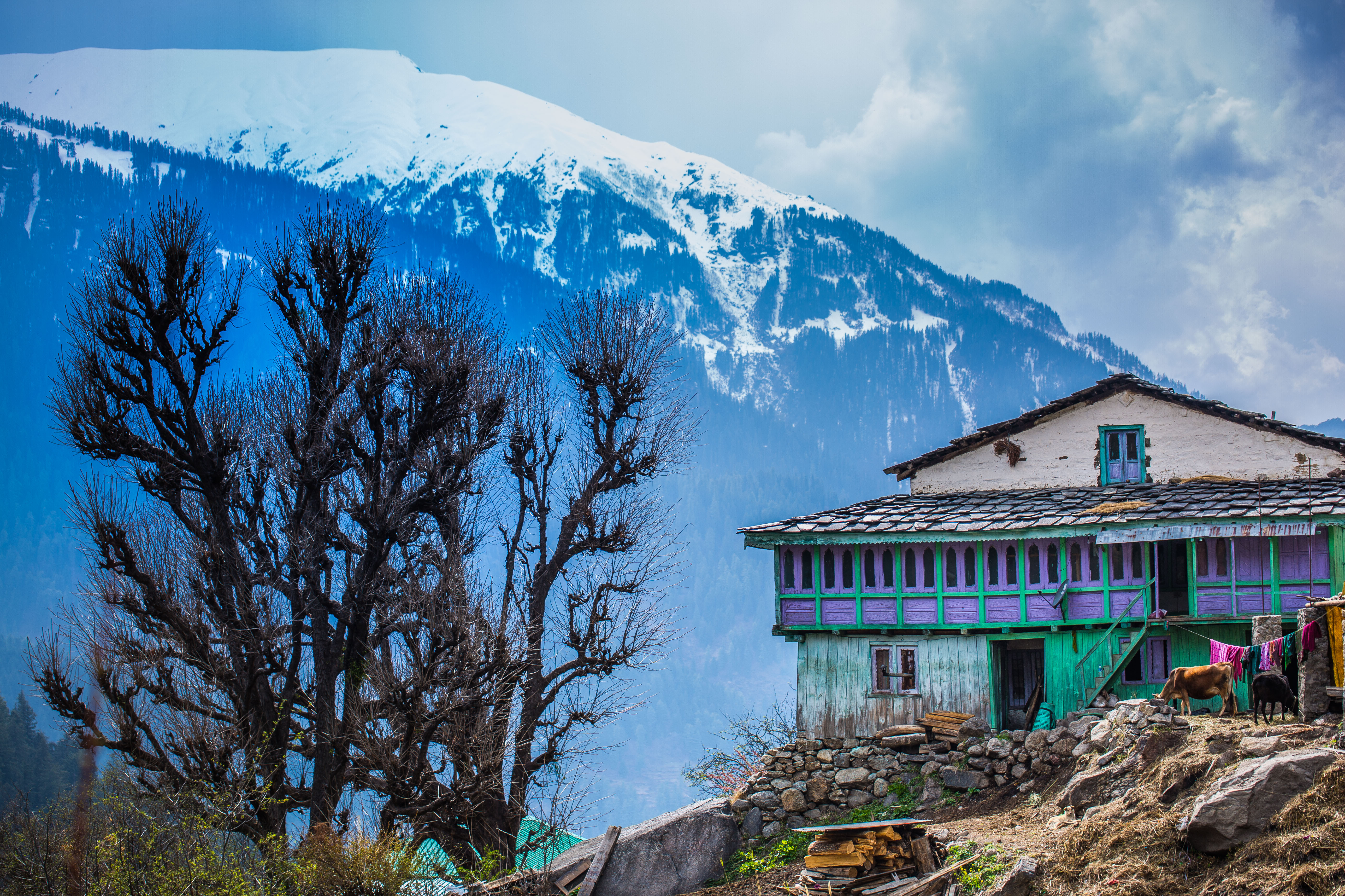 The Village of Nakthan sits between the mountains of upper Kullu and can only be accessed by foot and provides as a pit stop for trekkers to Kheer Ganga Peak.